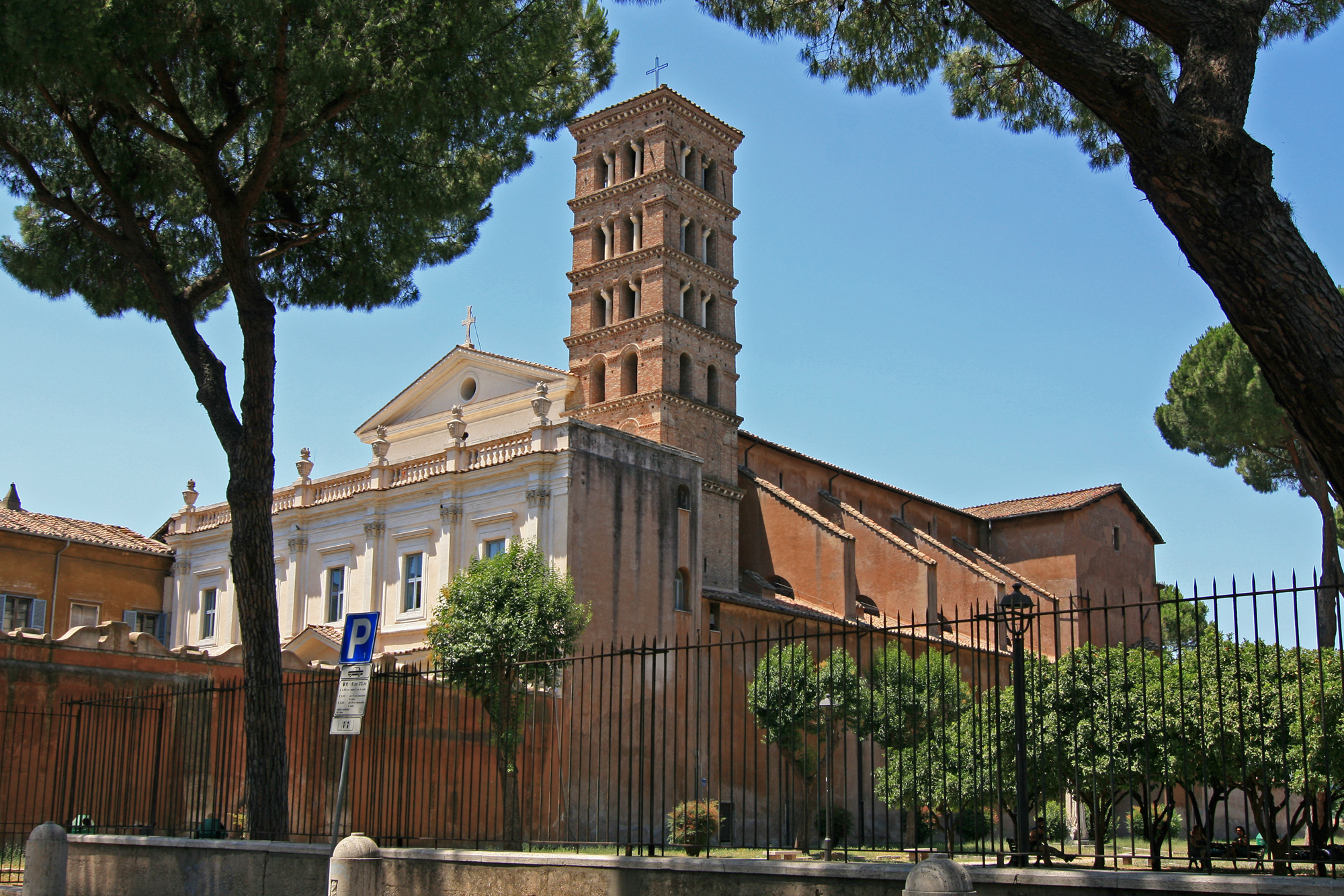 Church of Santi Bonifacio e Alessio, Rome.